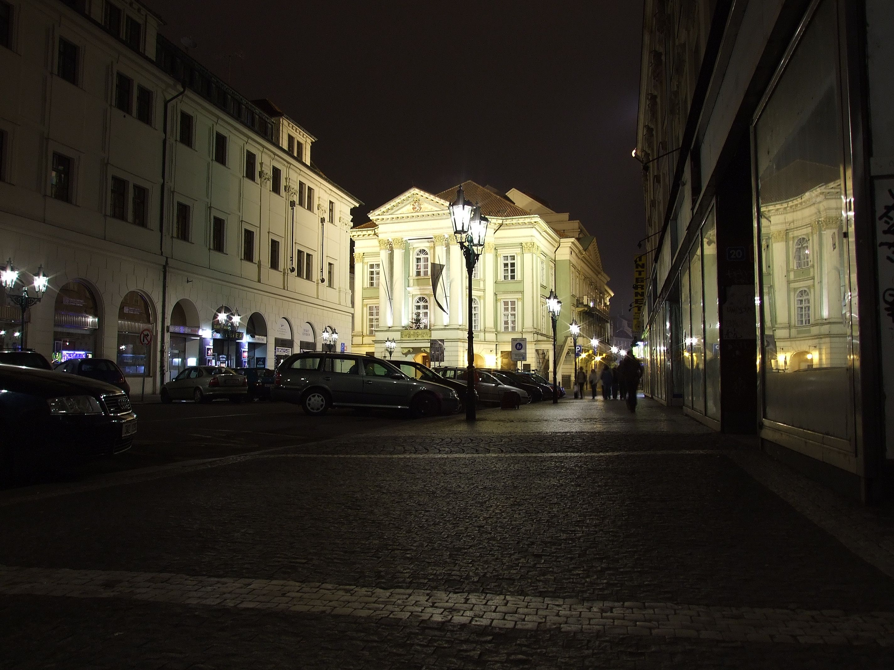 Rytířská street in Prague, in the distance the Stavovské divadlo theatre can be seen